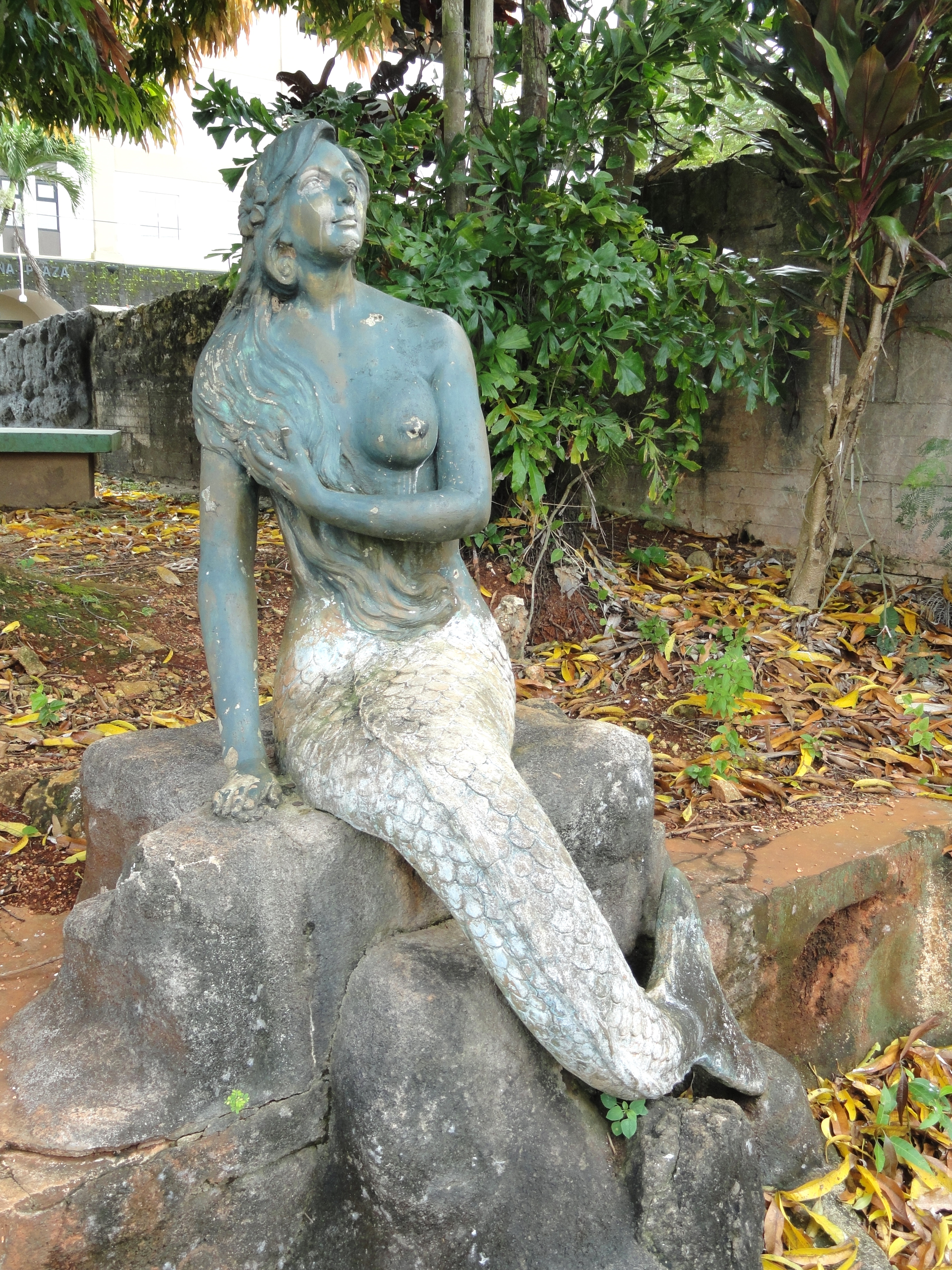 Statue of Sirena in Agana, Guam, USA. This statue is in the public domain because was created in 1978 but no copyright has been asserted.